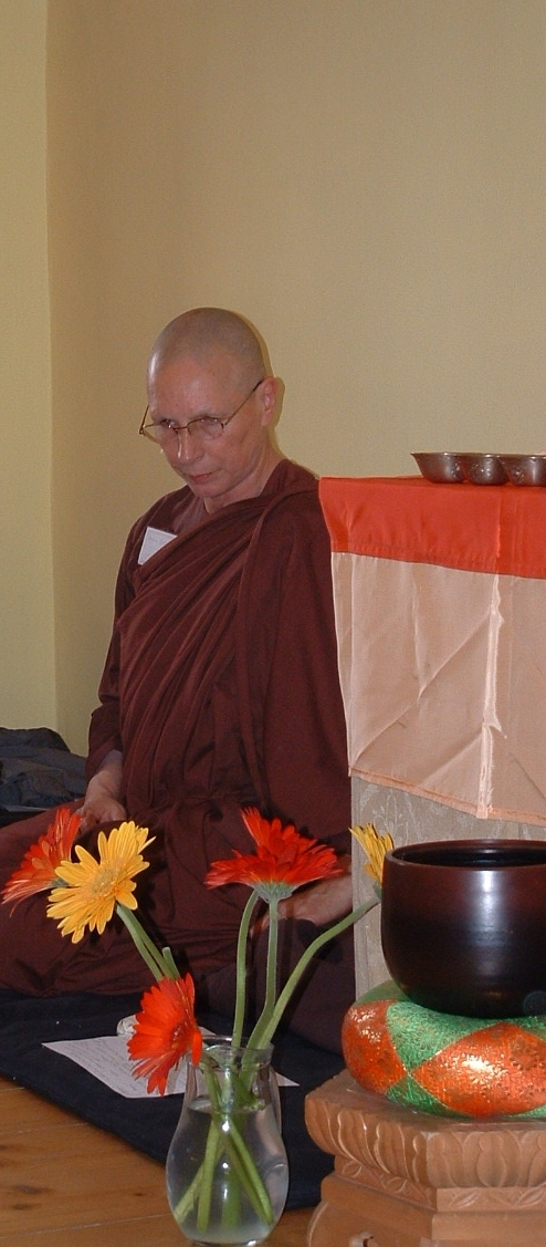 Ven. nun Sundara from Amaravati monastery Photograph by Gakuro